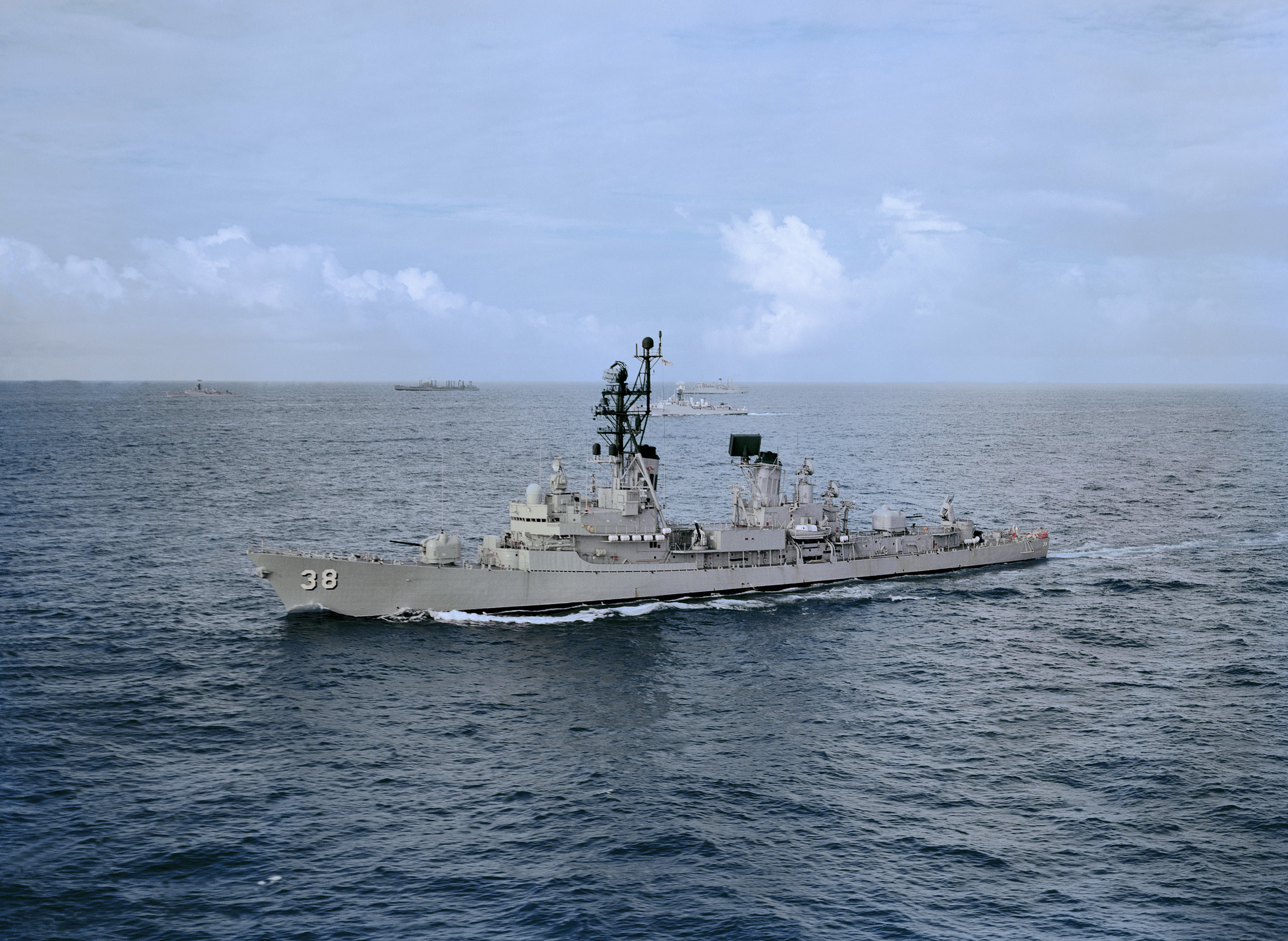 A port view of the Australian guided missile destroyer HMAS Perth (38) underway. Note: A correction about when this photo was taken - it was not 27 November 1991. Midships the photo shows boat davit and boat. Port and starboard davits and boats were removed late 1990, early 1991 and replaced with RHIBs (slightly aft of where the davits were) and were launched using HIAB cranes. Suggest photo was more likely taken 1990.